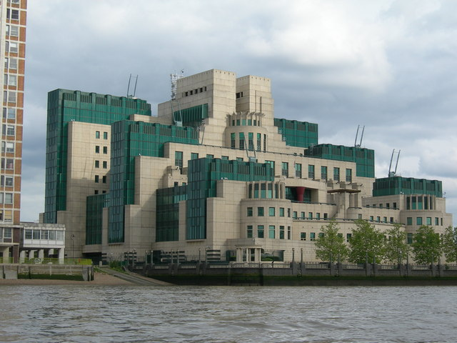 MI6 Building, Albert Embankment. This is where MI6 is based. Note the white satellite dishes and radio aerials on the roof. The slipway to the left is frequently used by London Duck Tours DUKW amphibious vehicles taking tourists on sightseeing tours.